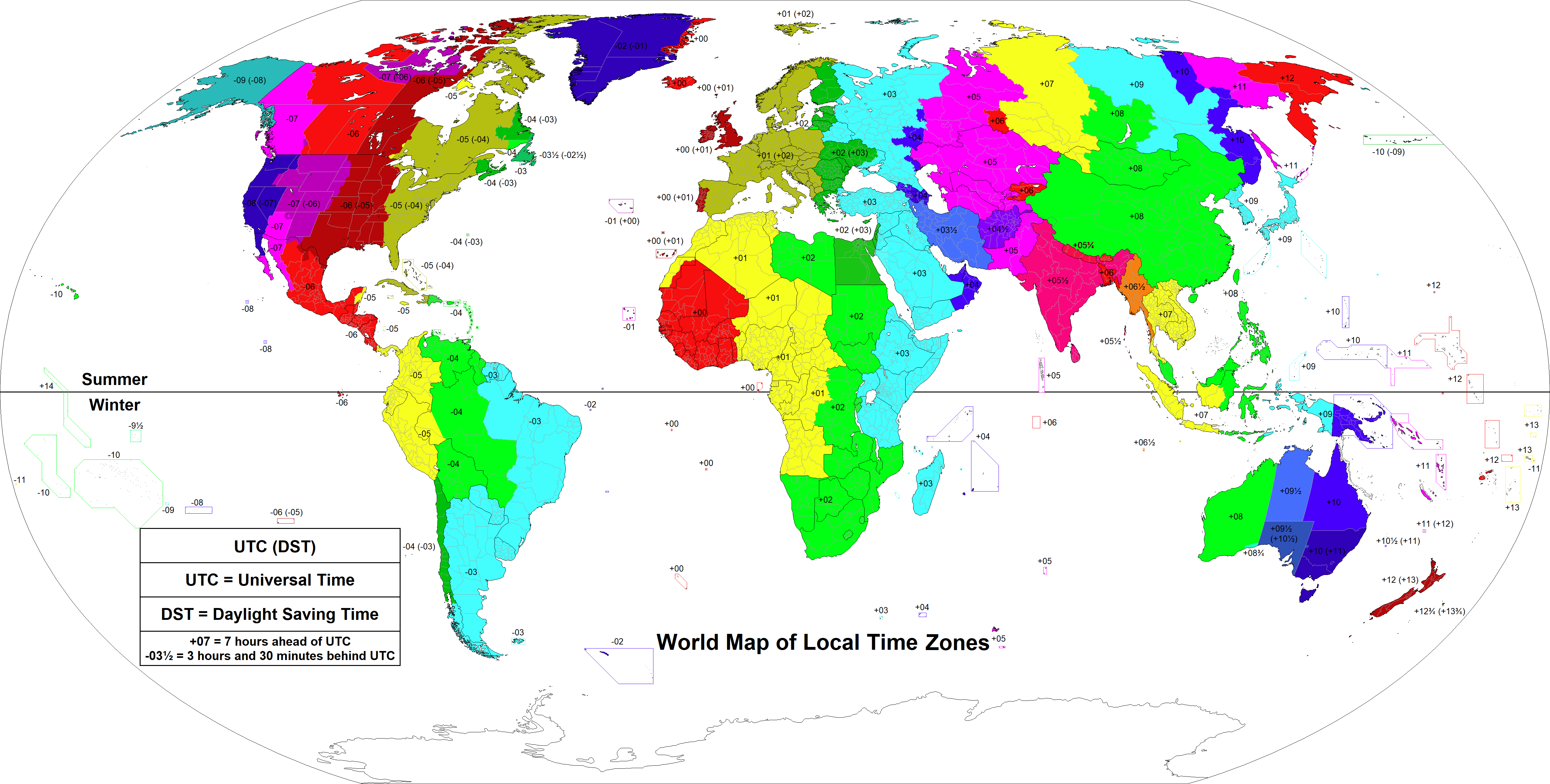 Map of the world's time zones